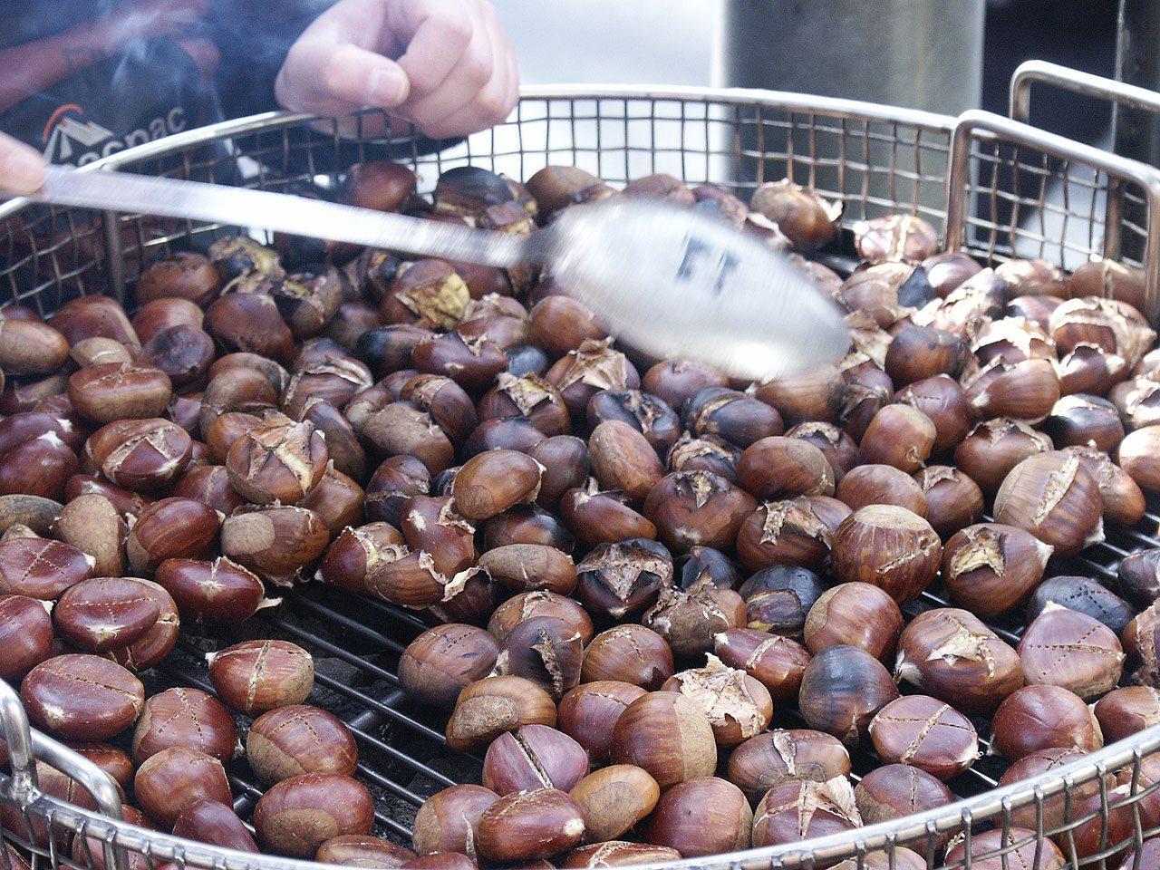 Roasted chestnuts being sold by street vendor